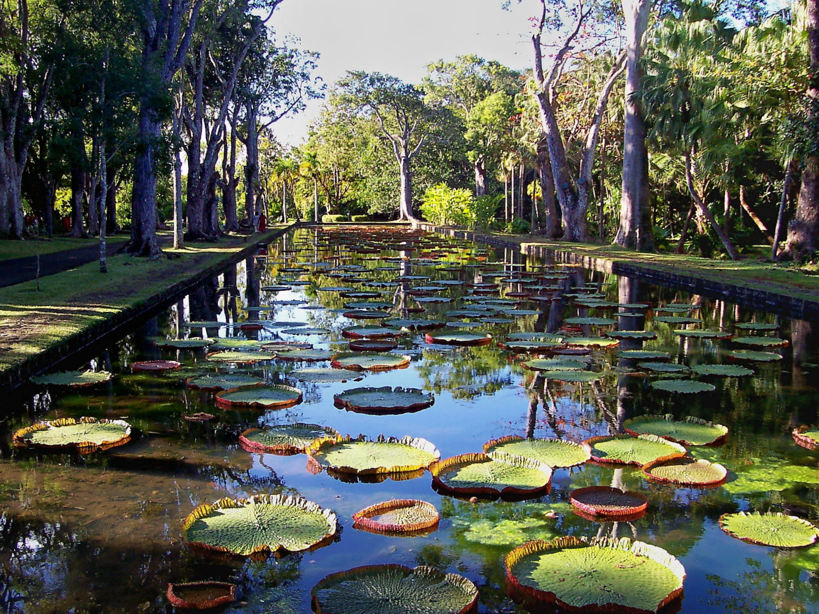 Giant waterlillies (Victoria cruziana) pond at Sir Seewoosagur Ramgoolam Botanical Garden, Pamplemousse, Mauritius